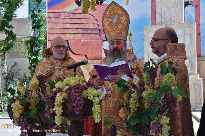 The Blessing of Grapes Festival at St. Sargis Church in Tehran